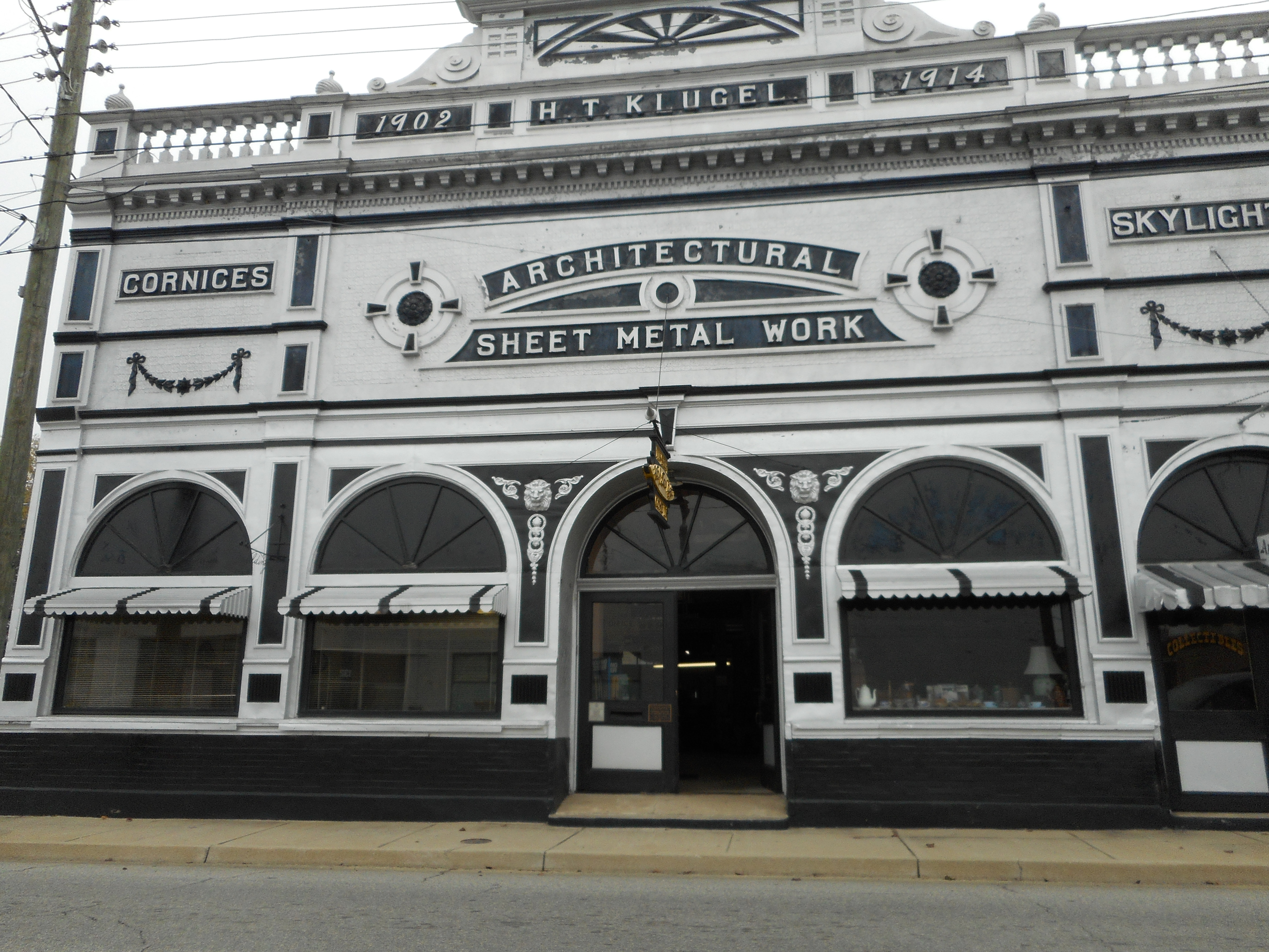 The H. T. Klugel Architectural Sheet Metal Work Building, as seen from the middle of the westbound lane of U.S. Route 58 Business (East Atlantic Avenue) in Emporia, Virginia, now an antique store. Also part of the Belfield-Emporia Historic District.